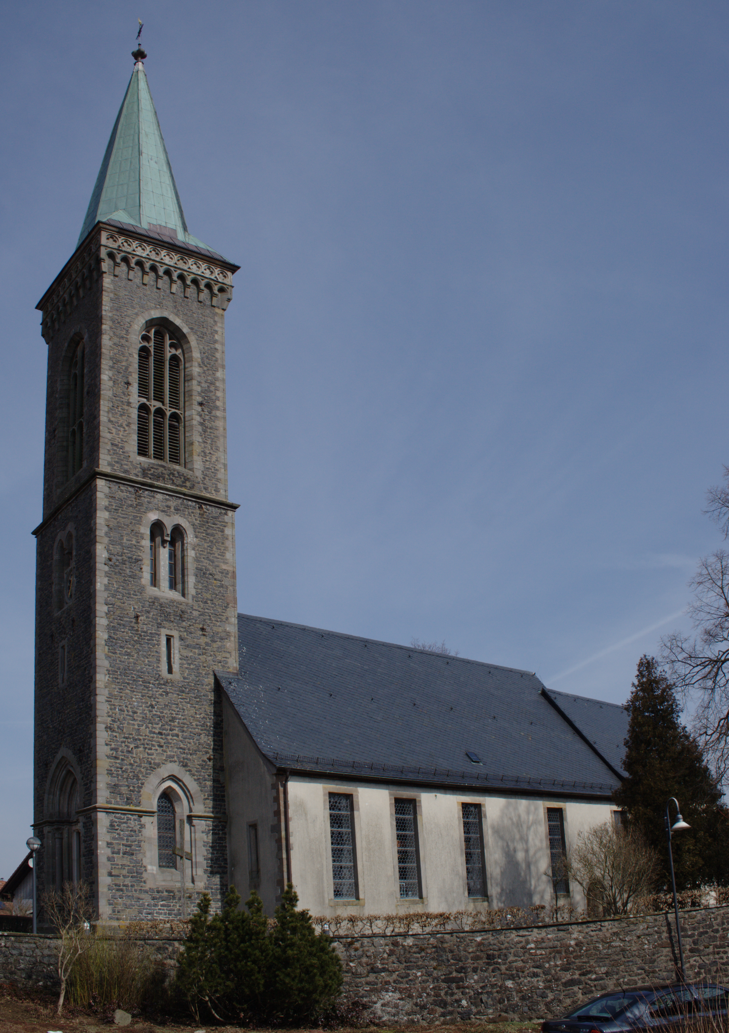 Protestant Church in Grebenhain, Crainfeld, Hesse, Germany